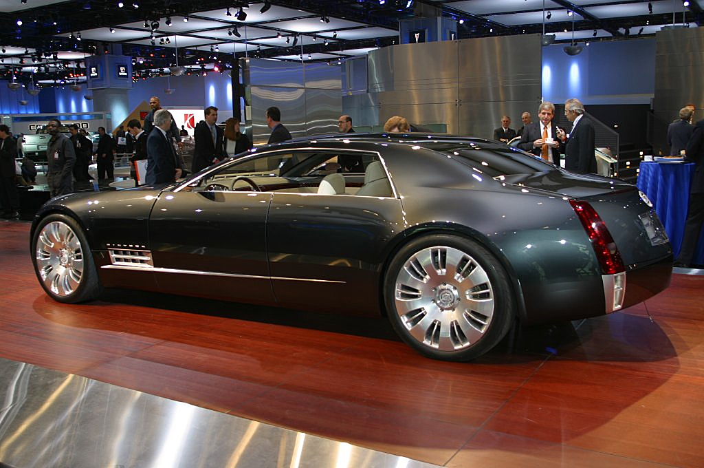 As seen at the 2003 North American International auto show in Detroit.